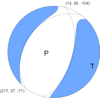 CMT - M 6.0 - 255km ESE of Ishinomaki, Japan 中文（中国大陆）: 2017年10月6日福岛近海地震 (17时00分) CMT